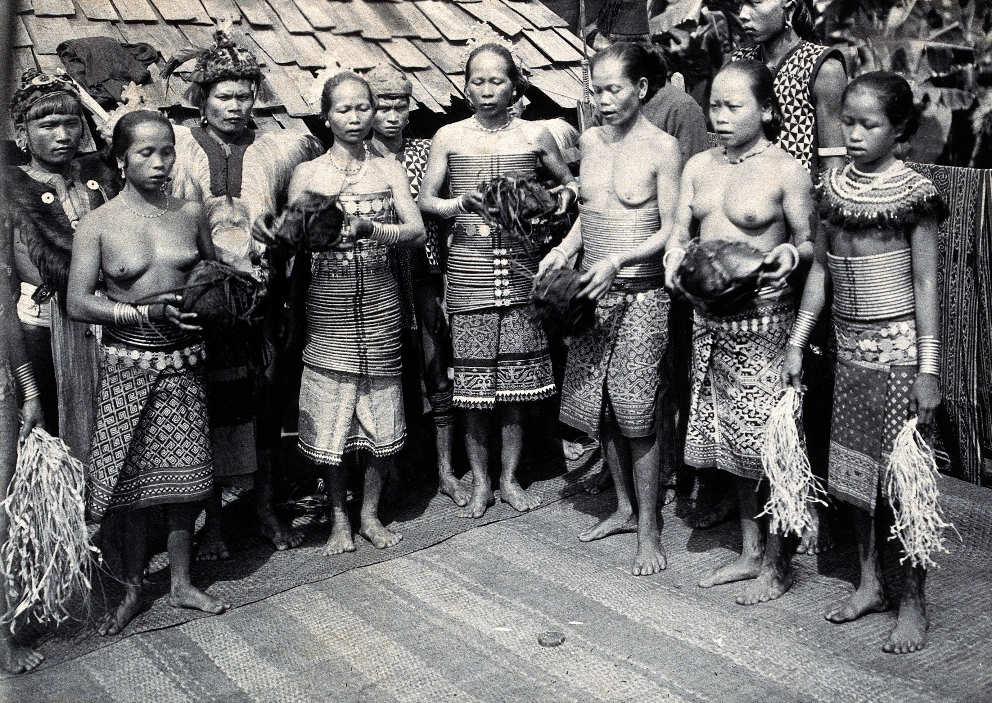 Sarawak: Sea Dayak tribesmen at a head feast. Photograph. Iconographic Collections Keywords: Tribe; Population Groups; Borneo; Tribal; Charles Hose; Anthropology; Malaysia; Ethnography